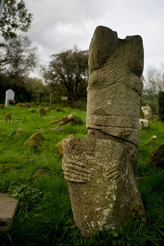 The broken bottom part of the Janus figure in Caldragh graveyard, Boa Island, County Fermanagh, Northern Ireland.